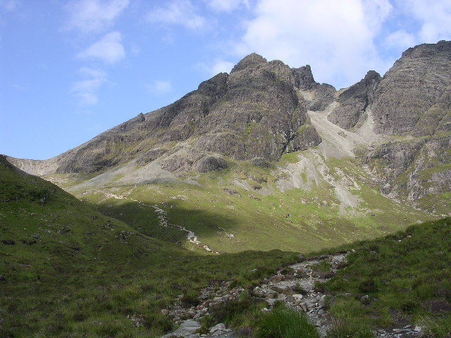 Blaven, Isle of Skye, Scotland, from the east.